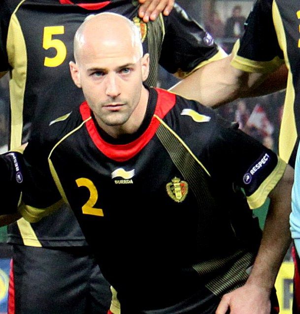 Laurent Ciman cropped from Belgium against the Austrian national football team (0:2), 2011-03-25 in Vienna (Ernst-Happel-Stadion